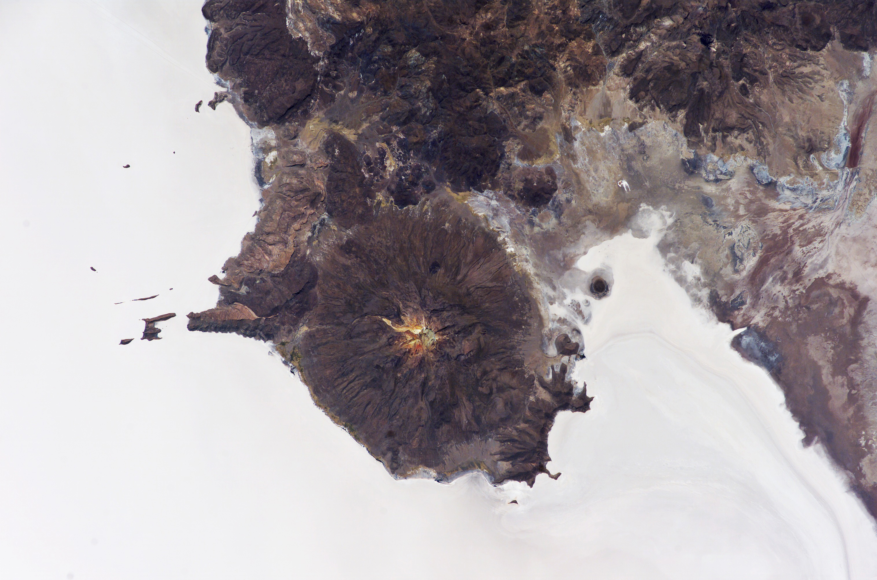 Astronaut photo of the Salar de Uyuni salt flat, Bolivia. Mount Tunupa, a dormant volcano, is in the middle of the image. Relict shorelines visible in the surface salt deposits (lower right of the image) attest to the occasional presence of small amounts of water in the salar.